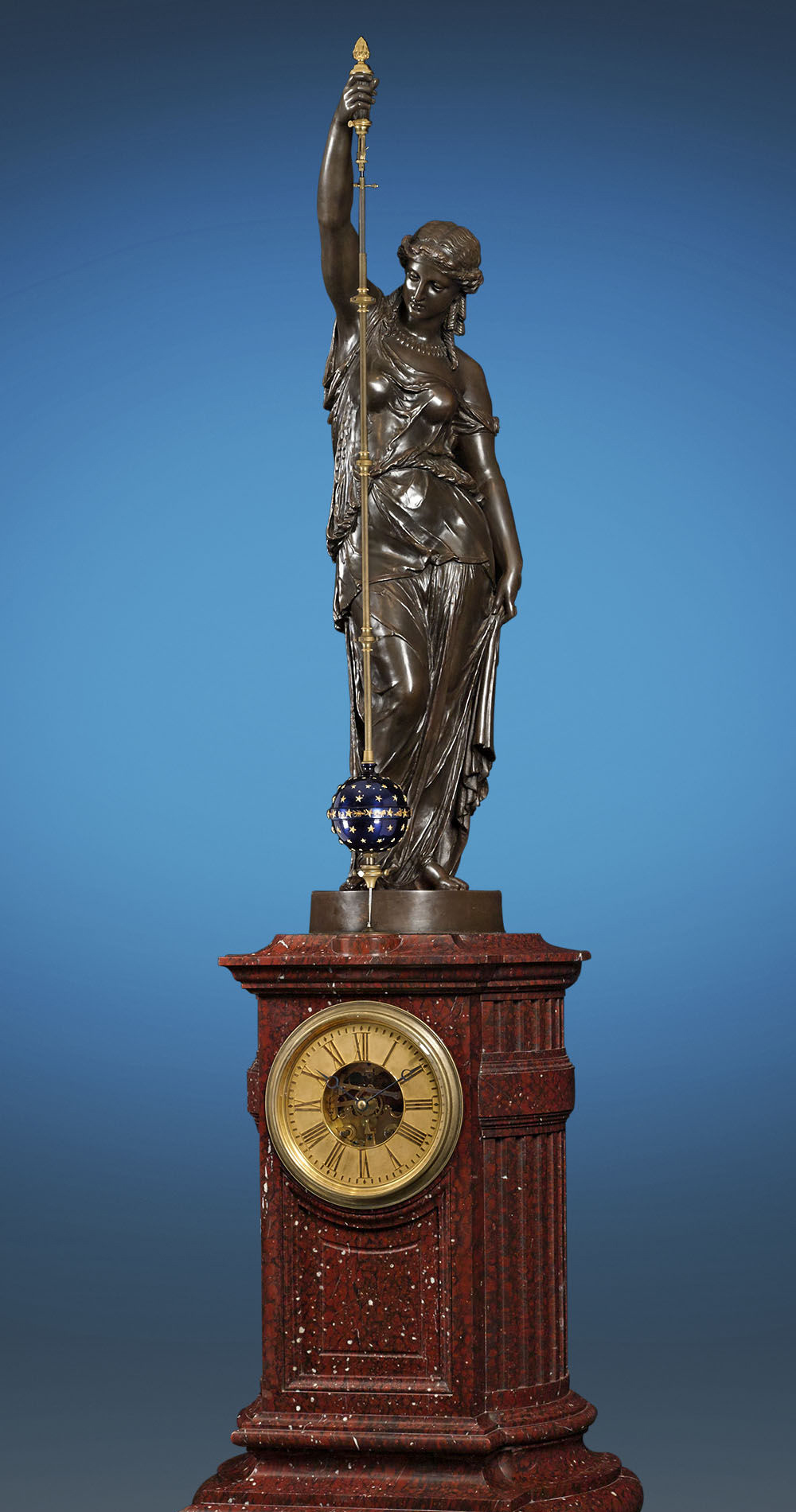 Sculpture of Urania by Carrier Belleuse atop conical mystery clock by Eugéne Farcot. Made for Great London Exhibition of 1862